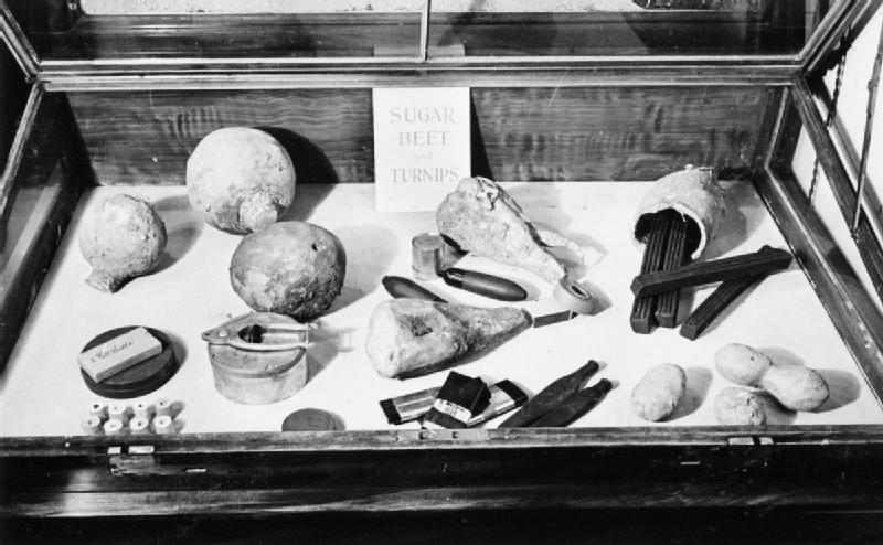 The Special Operations Executive Exhibition Or 'demonstration Room' in the Natural History Museum (station 15), London during the Second World War Far East Room. Display showing concealment of various materials in fake sugar beet and turnips.